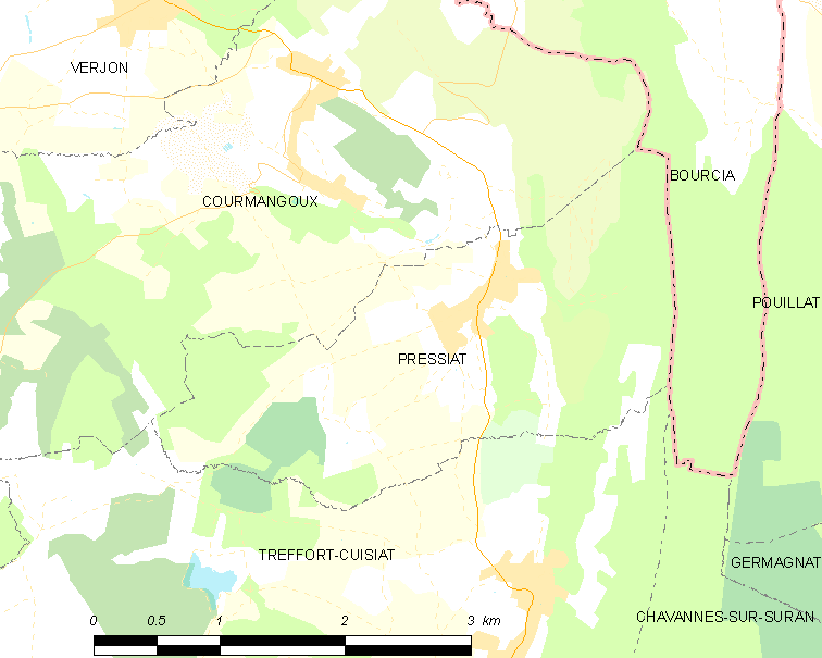 Map of French commune: Pressiat Map commune FR insee code 01312.png